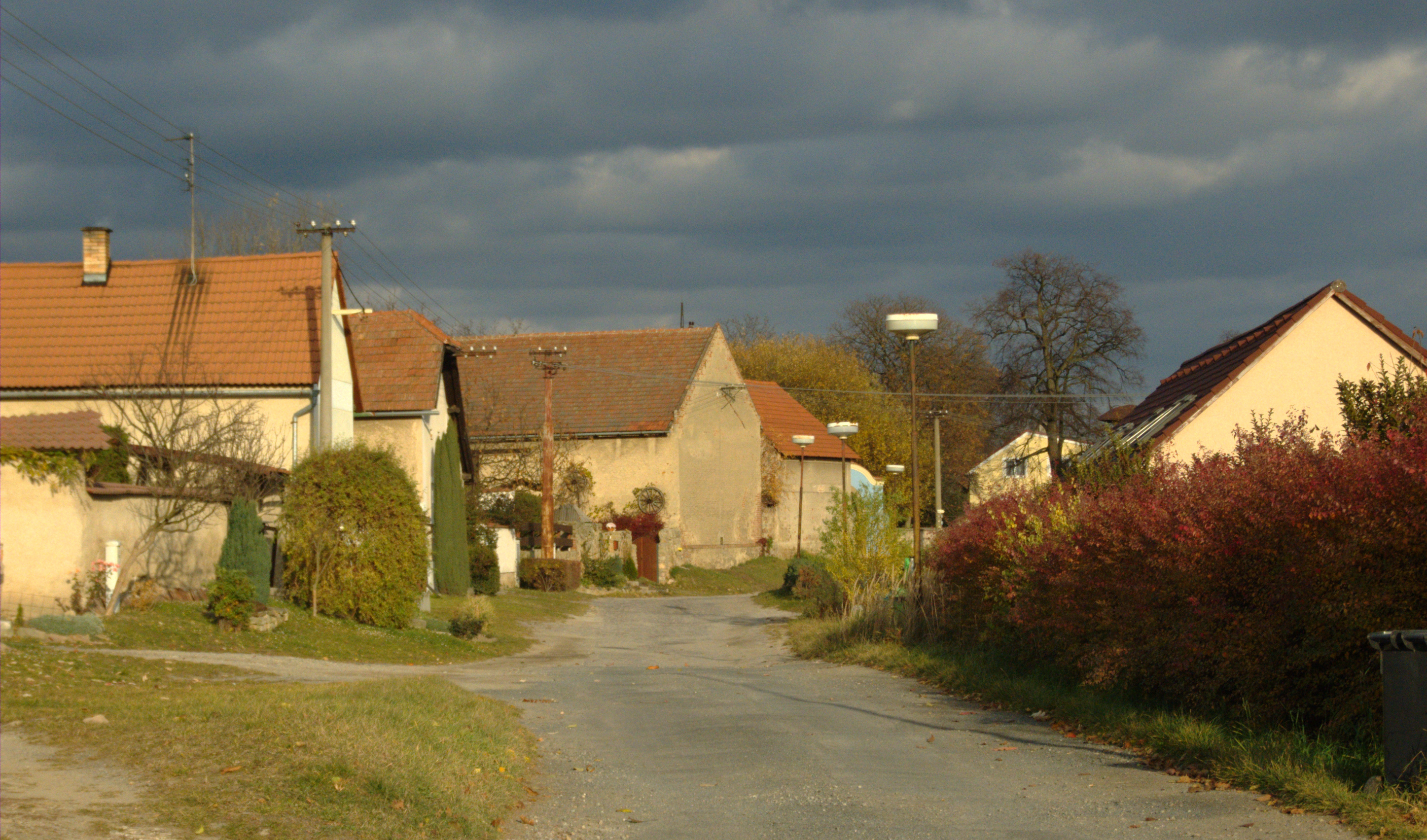 Village of Přehvozdí in Kolín District, CZ